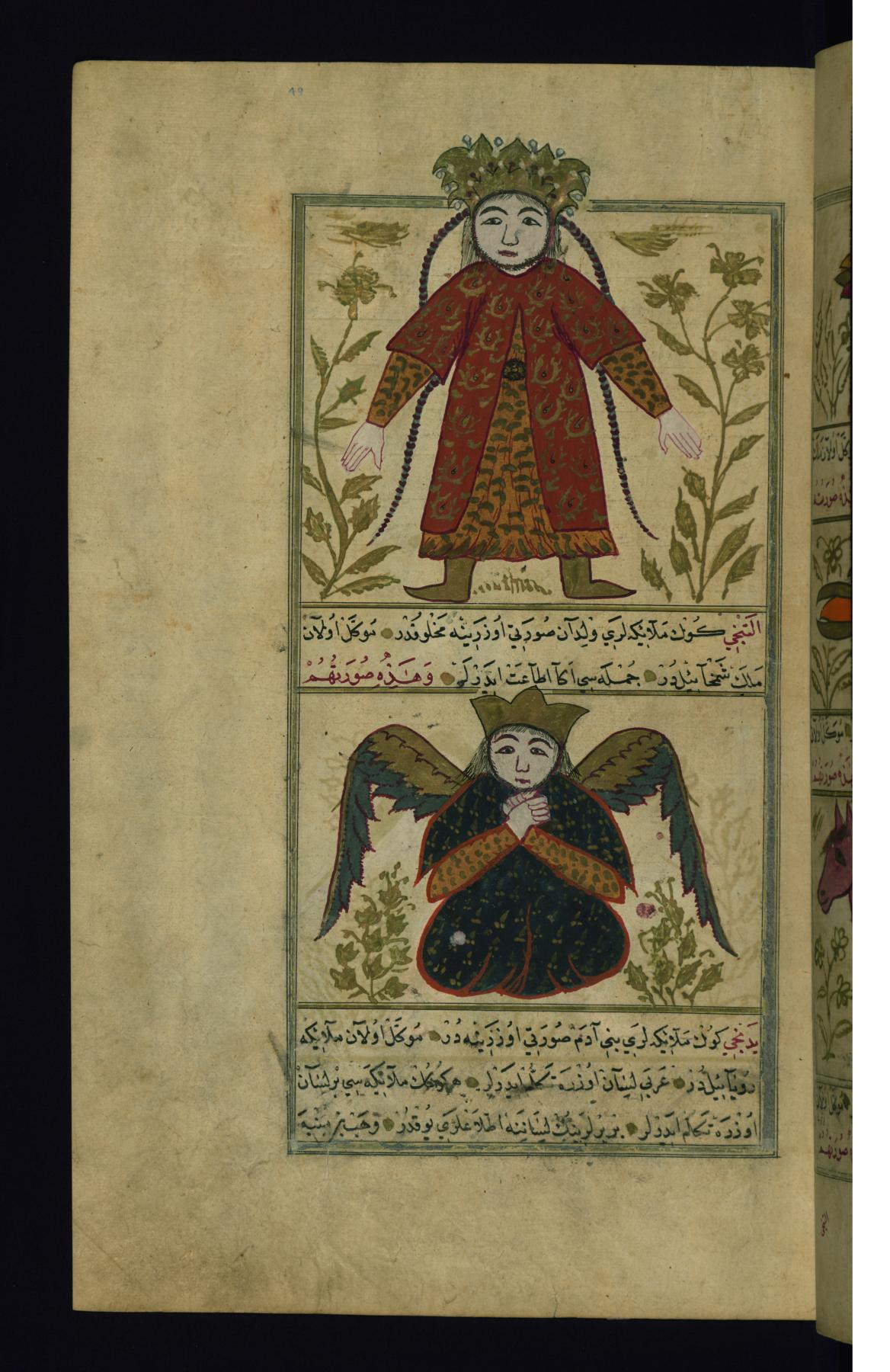 This folio from Walters manuscript W.659 depicts the angels Kalka?il and Shamsha'il.